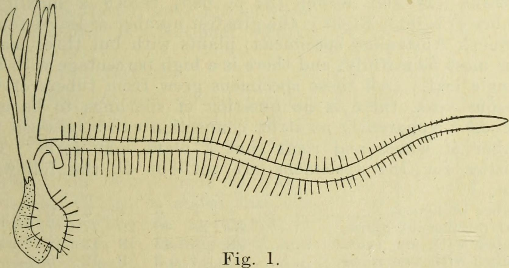 Phylloglossum Drummondh. Six-leaved plant with two roots,the full length of one of which is shown in its natural position.The very numerous root hairs are merely indicated diagrammatic-ally as are the hairs on the new tuber. Camera lucida outline x2£.